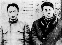 General Kim Il-sung and Kim Chaek